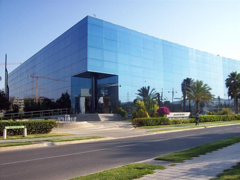 Premier Building in the Andalusian Technology Park